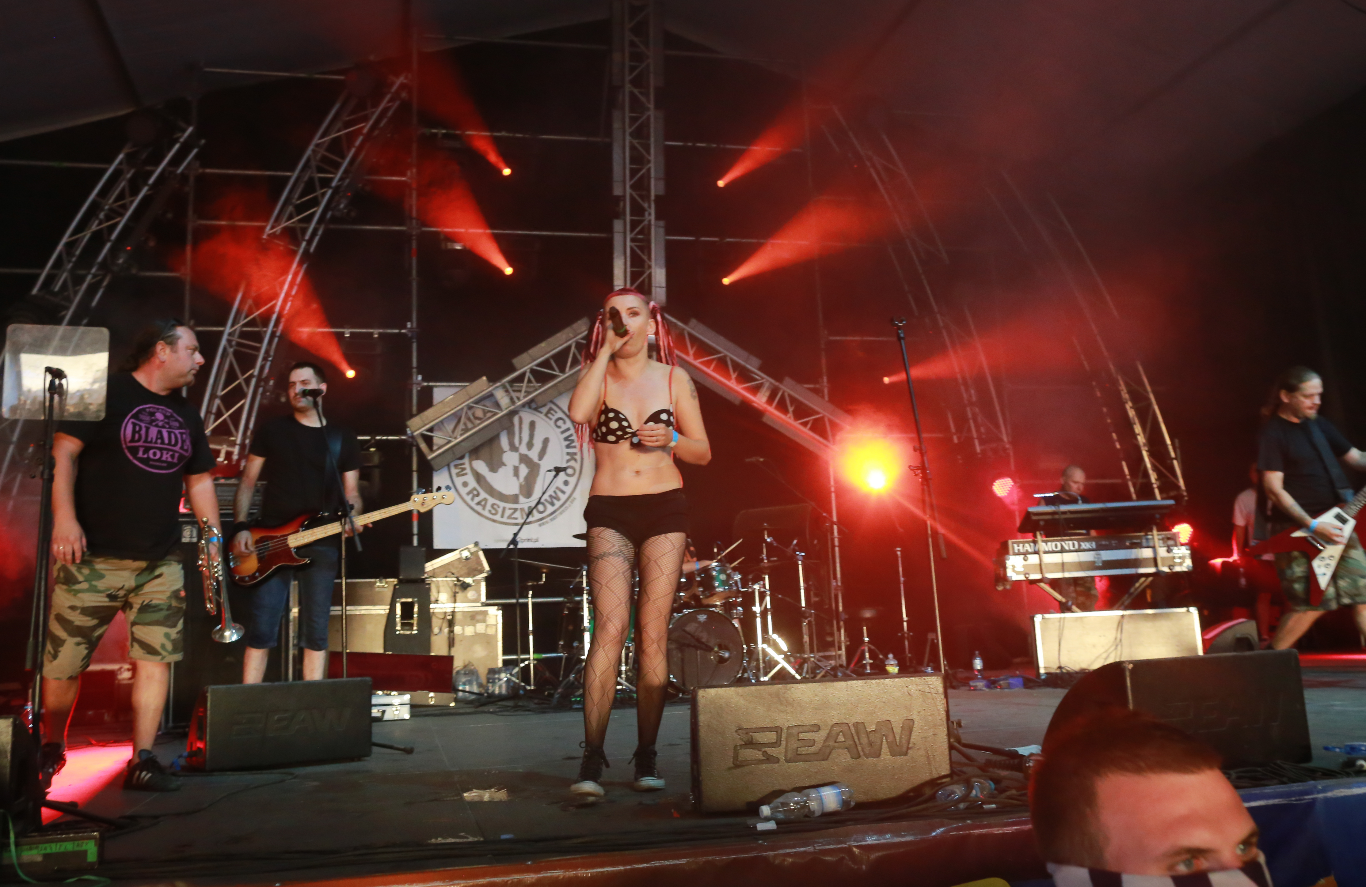 Pol'and'Rock Festival in 2018.